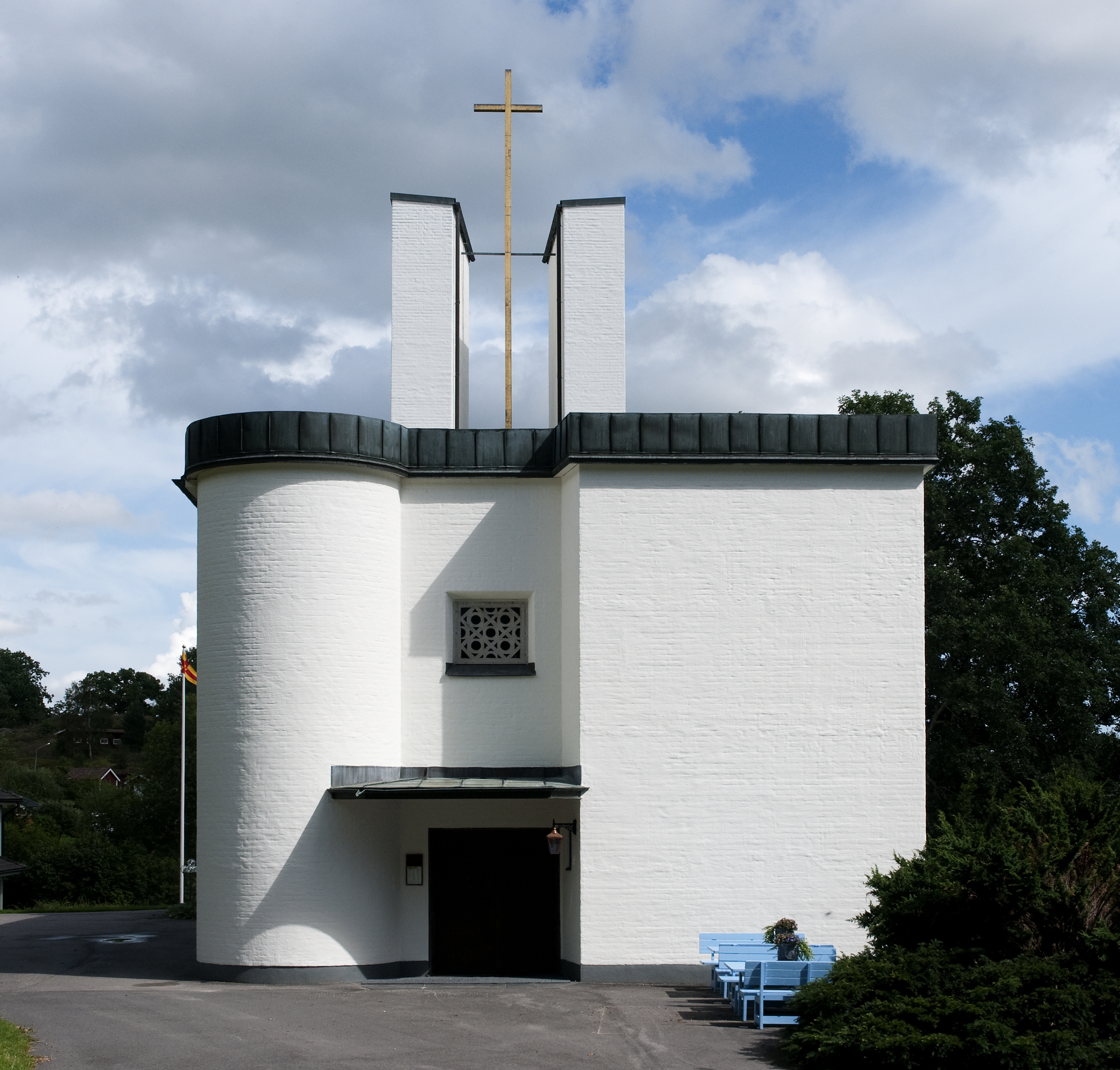 Kila church in the municipality of Nyköping.